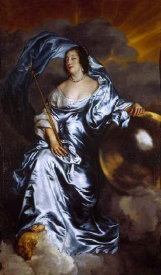 Anthony van Dyck portrait of Rachel de Massue, Countess of Southampton, c.1638